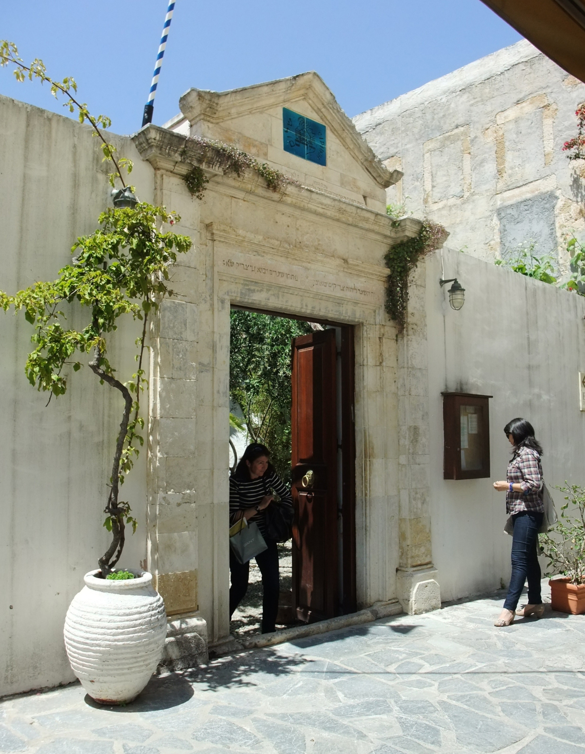 Jewish school in Chania, Crete, Greece